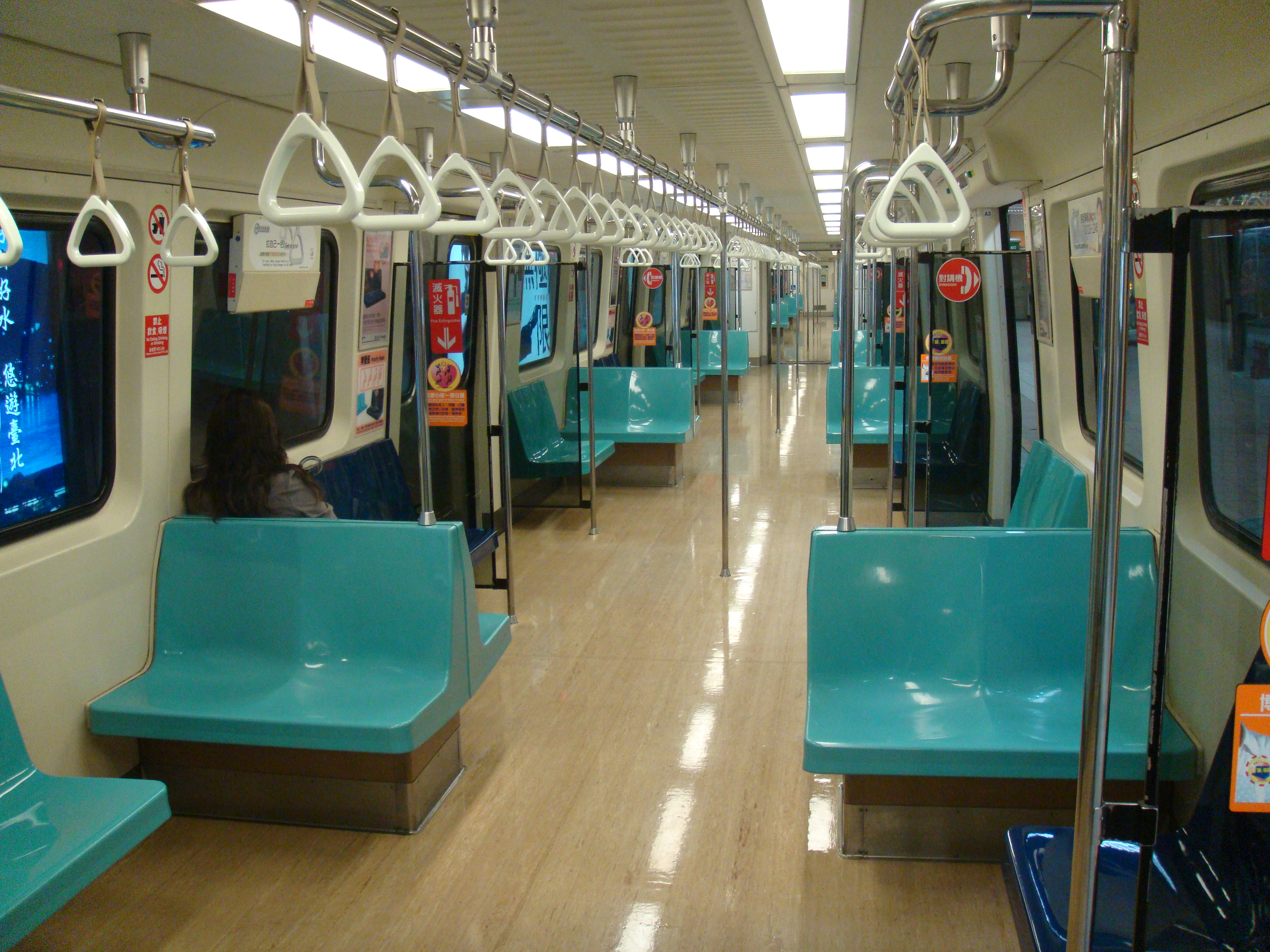 Interior (motor car) of C301 rolling stock, Taipei Metro, Taipei.